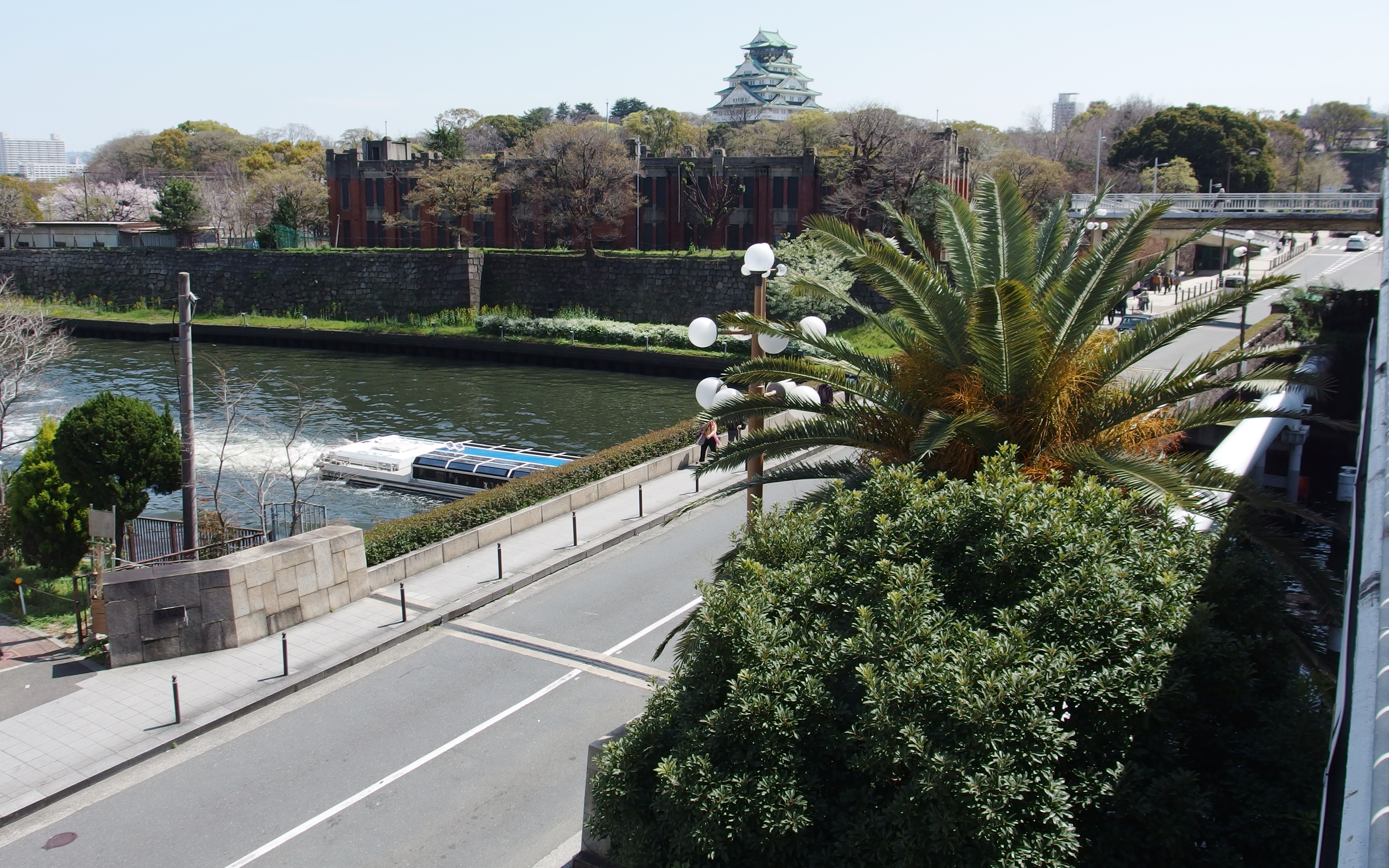 Kyobashi Bridge in Osaka, Osaka Prefecture, Japan